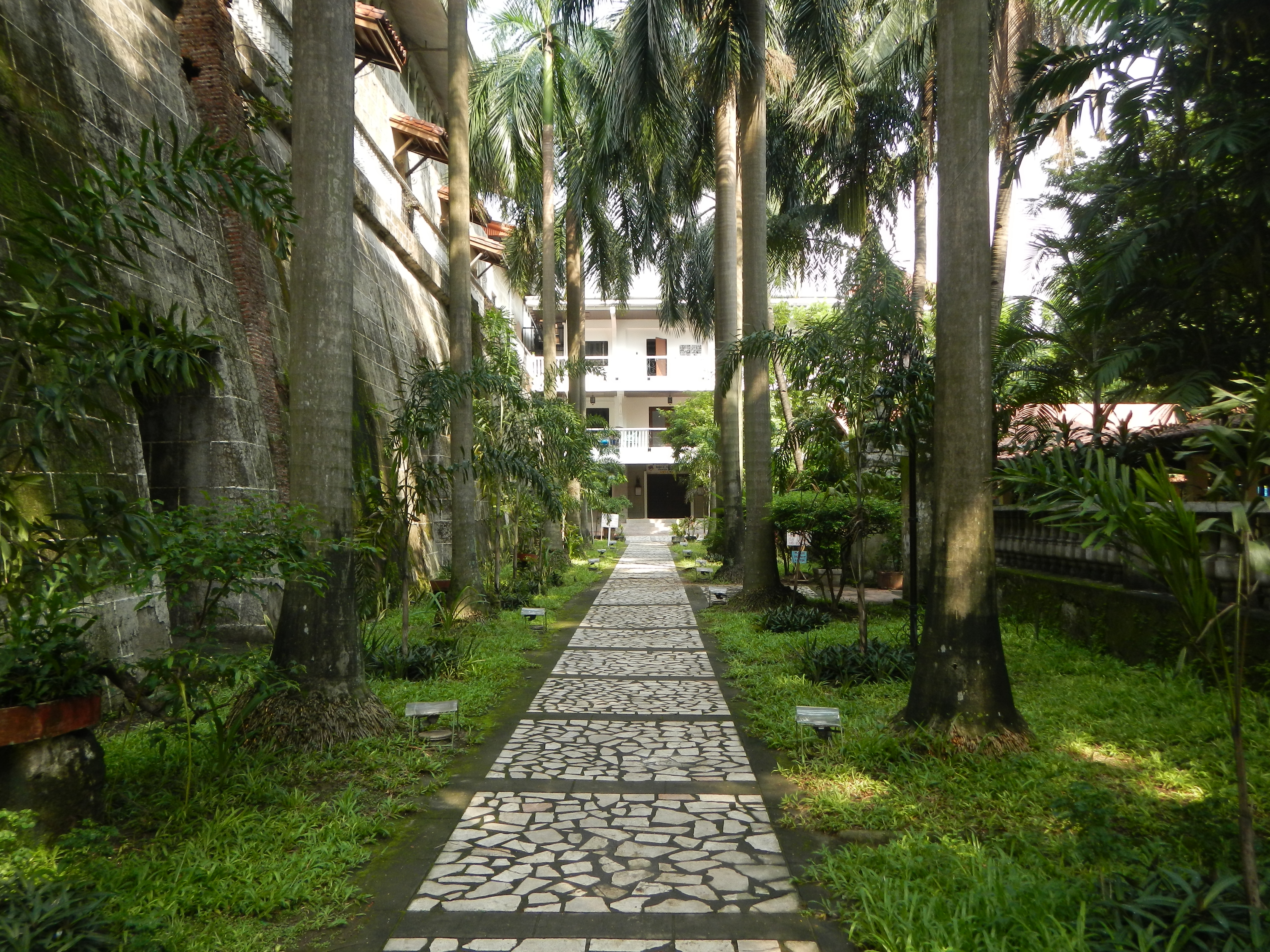 Seminario San Agustin - Order of Saint Augustine, Province of the Most Holy Name of Jesus in the Philippine -Vacariate of the Orient (E-1565) - Professorium [1] [2] (Augustinians, E-1244) Convento de San Agustin - 181 Gen. Luna Street, P.O. Box 3366, Intramuros, Manila - (Postulancy and Pre-Novitiate) beside/adjoining --- The San Agustin Church Museum is part of the - San Agustin Church, Manila - (Shrine of Nuestra Señora de Consolacion y Correa - Nuestra Señora, Madre de la Consolación) [3] - [4] (General Luna Street, Intramuros, Manila) a Roman Catholic church under Roman Catholic Archdiocese of Manila,[5] and the auspices of The Order of St. Augustine[6], located inside the historic walled city of Intramuros[7] in Manila. Originally known as "inglesia de San Pablo", founded in 1571, it is the oldest stone church (built in 1589) in the Philippines. In 1993, San Agustin Church was one of 4 Philippine churches constructed during the Spanish colonial period designated as a World Heritage Site by UNESCO, under the collective title Baroque Churches of the Philippine.[8][9] It was named a National Historical Landmark by the Philippine government in 1976.[10] Website [11] San Agustin Museum: Repository of enduring friendship July 25, 2004 [12] San Agustin International Music Festival [13] r. Pedro G. Galende was the director of San Agustin Museum in Intramuros, Manila, suceeded by incumbent Director and Curator, Fr. Asis Bajao, OSA.[14]